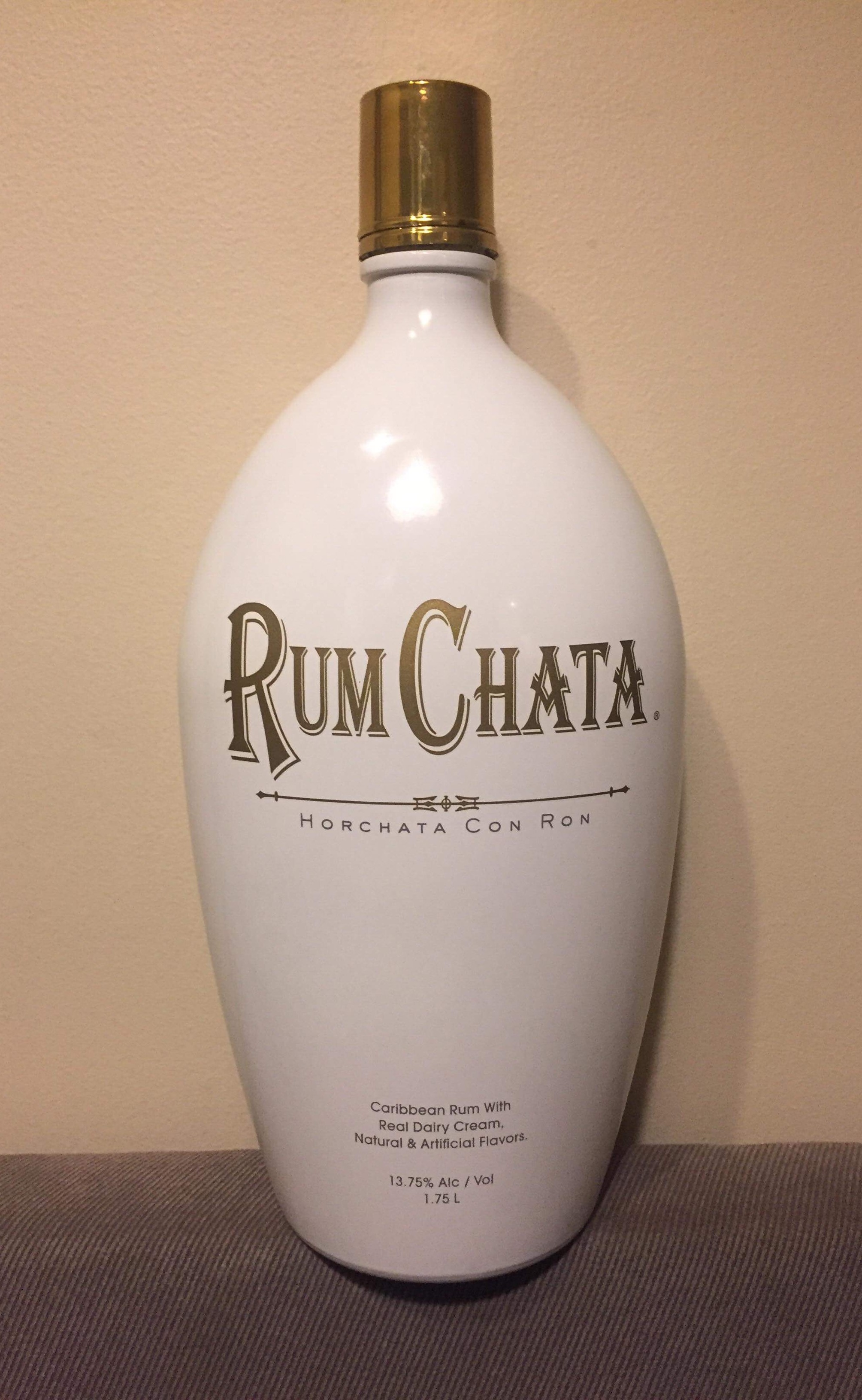 A 750ml bottle of RumChata.